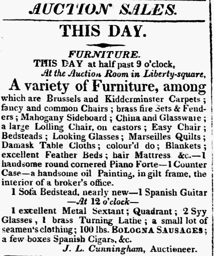 Newspaper item related to J.L. Cunningham, auctioneer, Boston, Massachusetts